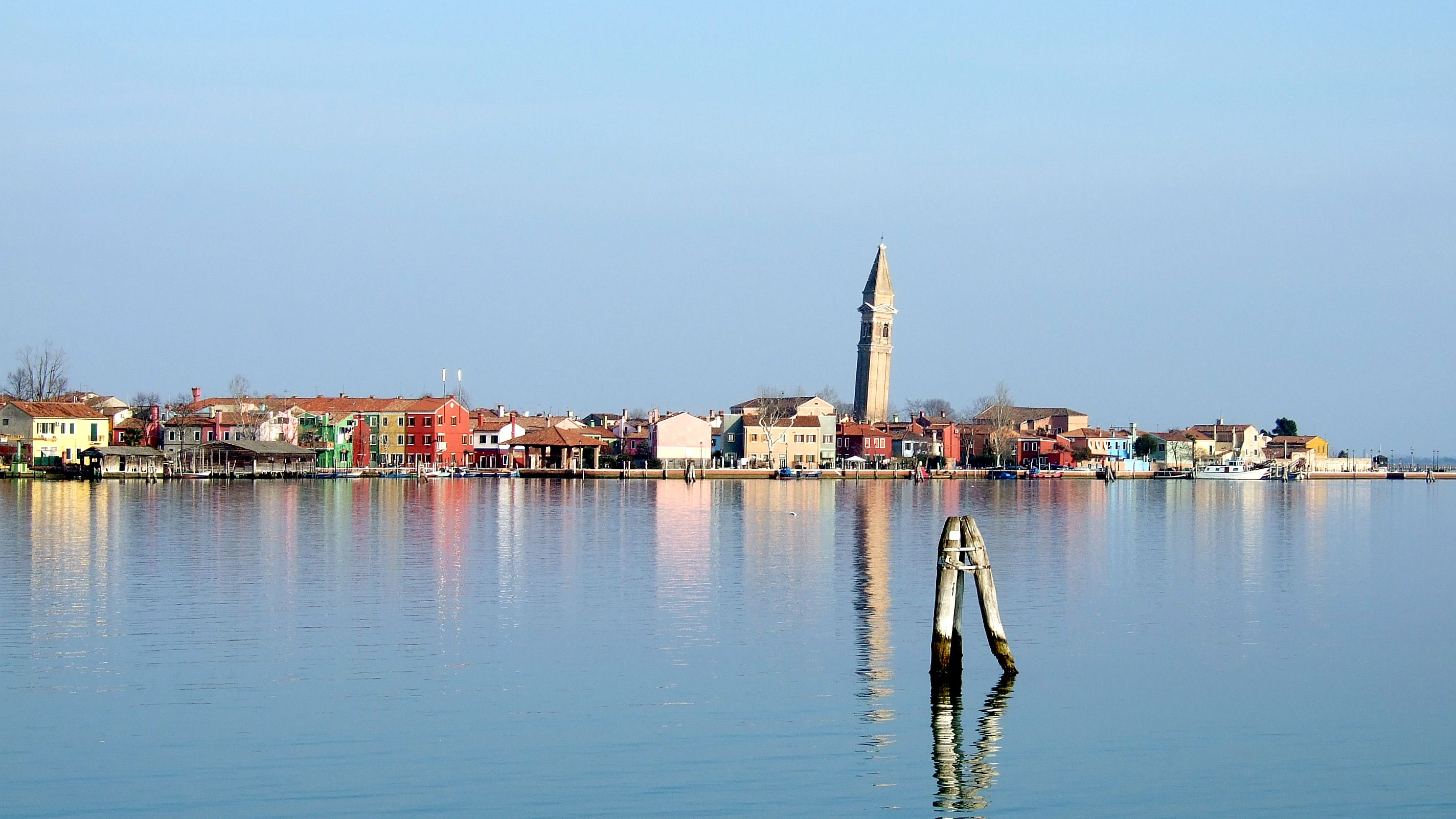 Burano, view from Mazzorbo